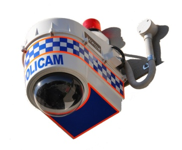 POLICAM surveillance camera and enclosure.